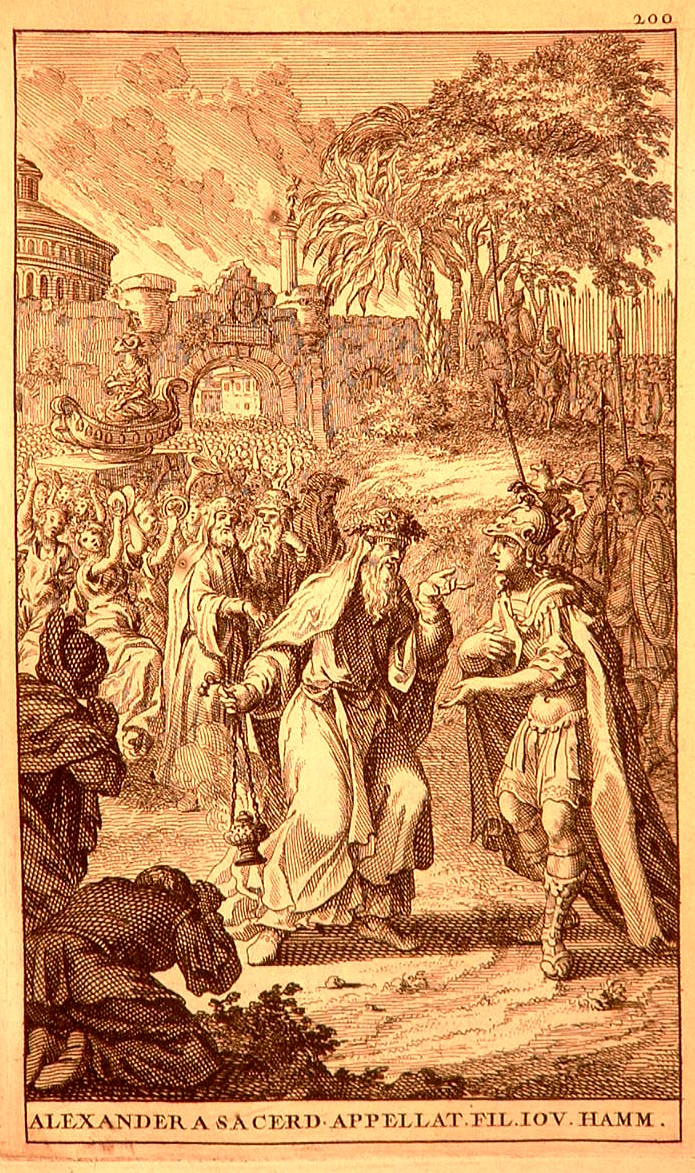 Alexander the Great called the son of Jupiter-Ammon by the priest at the oracle in the Siwa oasis.